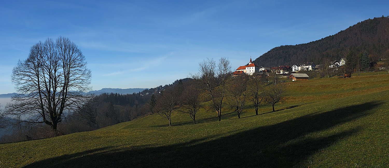 Nice village on a sunny terrace of Krvavec mountain.